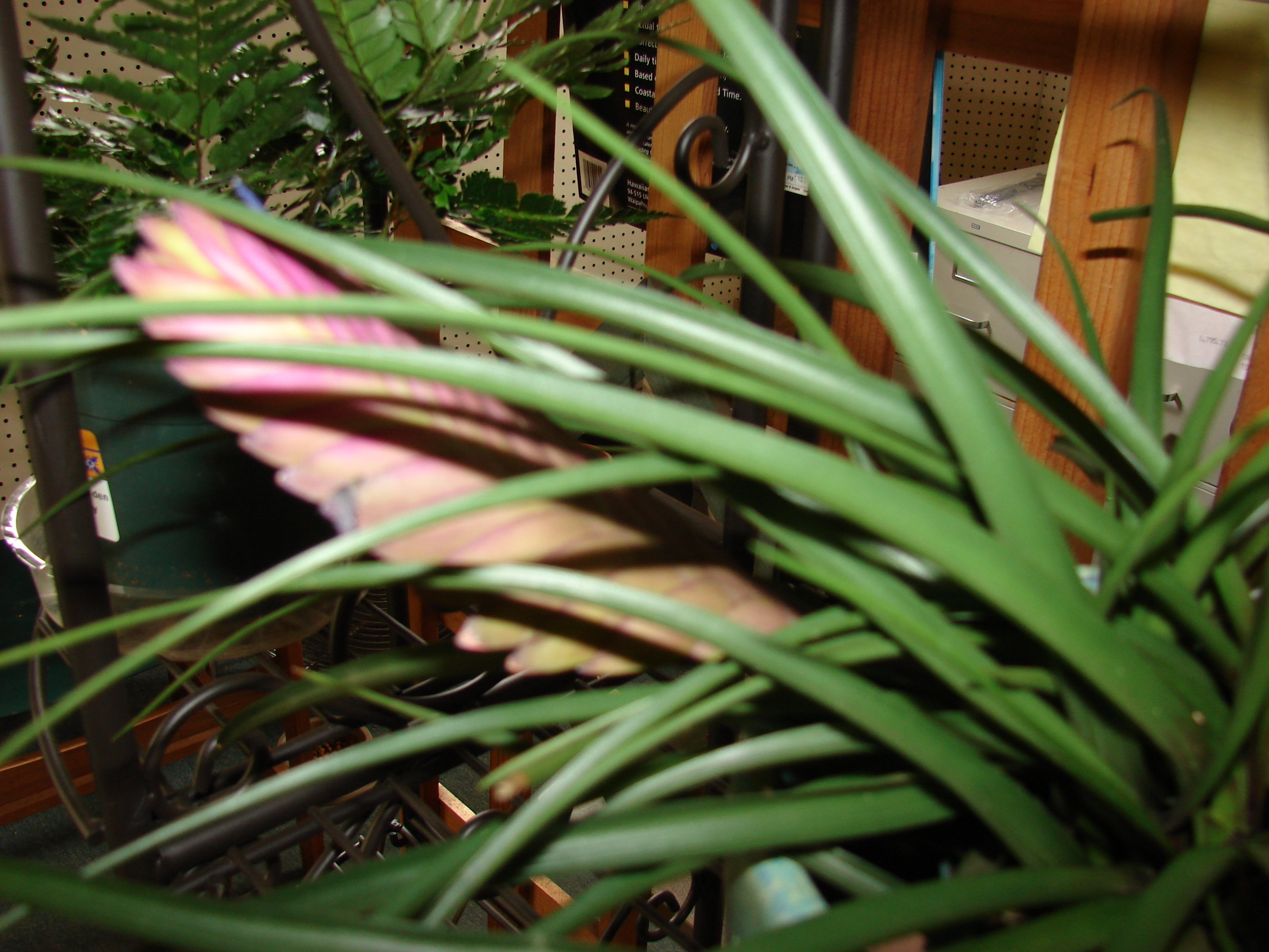 Tillandsia lindenii (flowering habit). Location: Maui, Kula Ace Hardware and Nursery